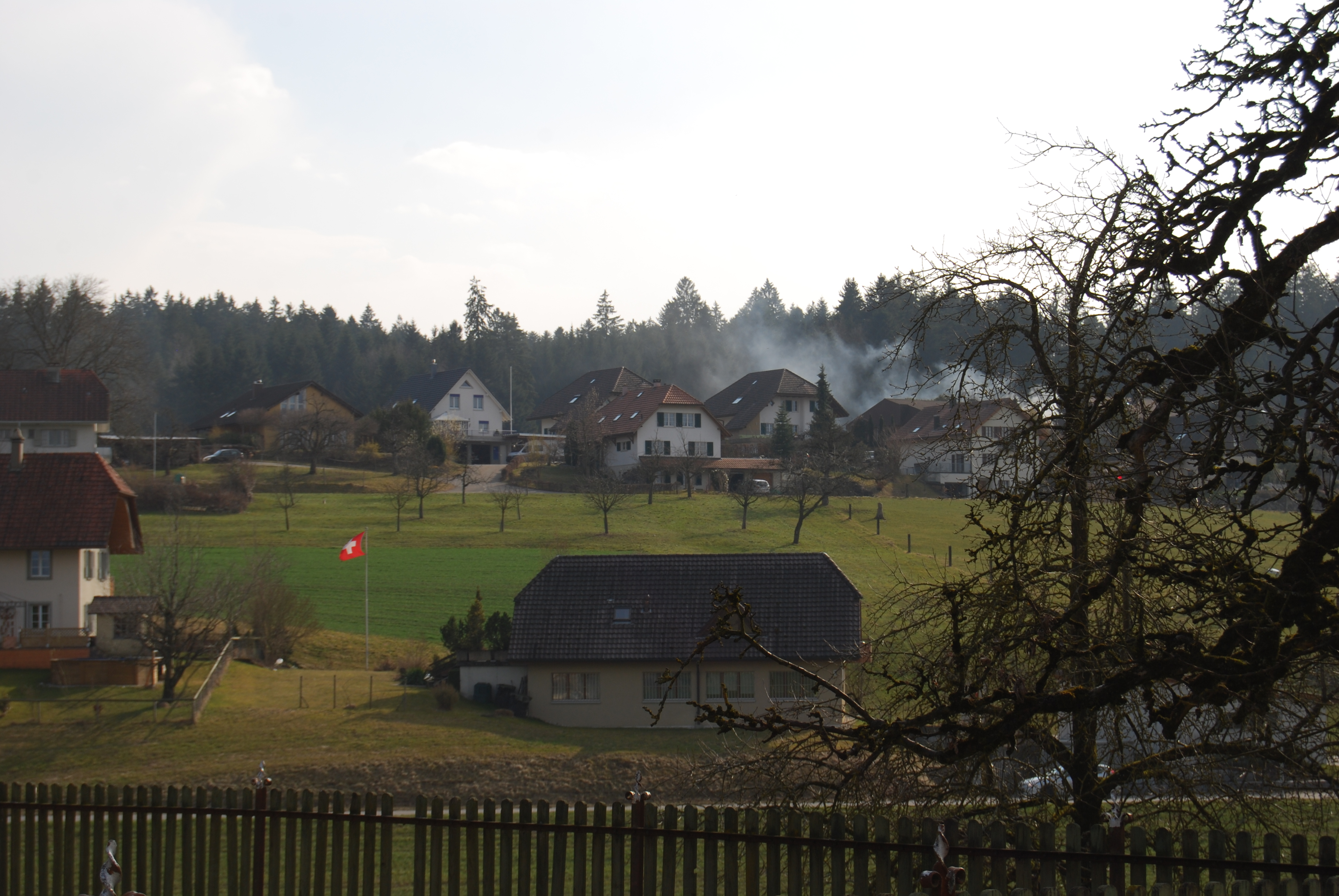 Obersteckholz, canton of Bern, SwitzerlandEsperanto: Obersteckholz, Kantono Berno, Svislando